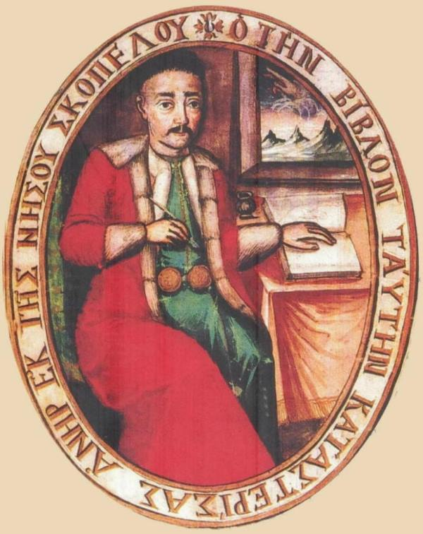 Konstantinos Kaisarios Dapontes